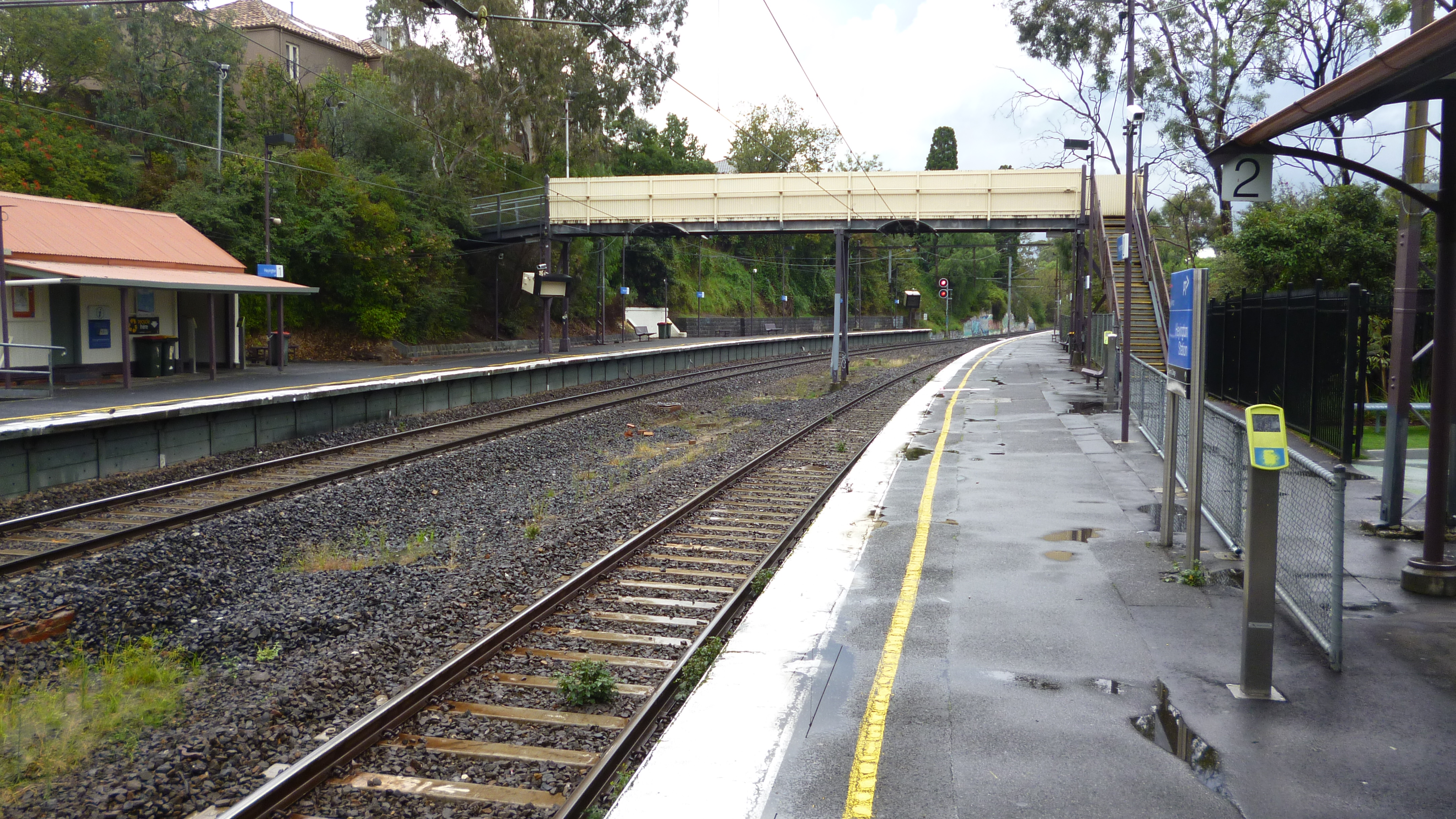 Photo of Heyington railway station, looking north.